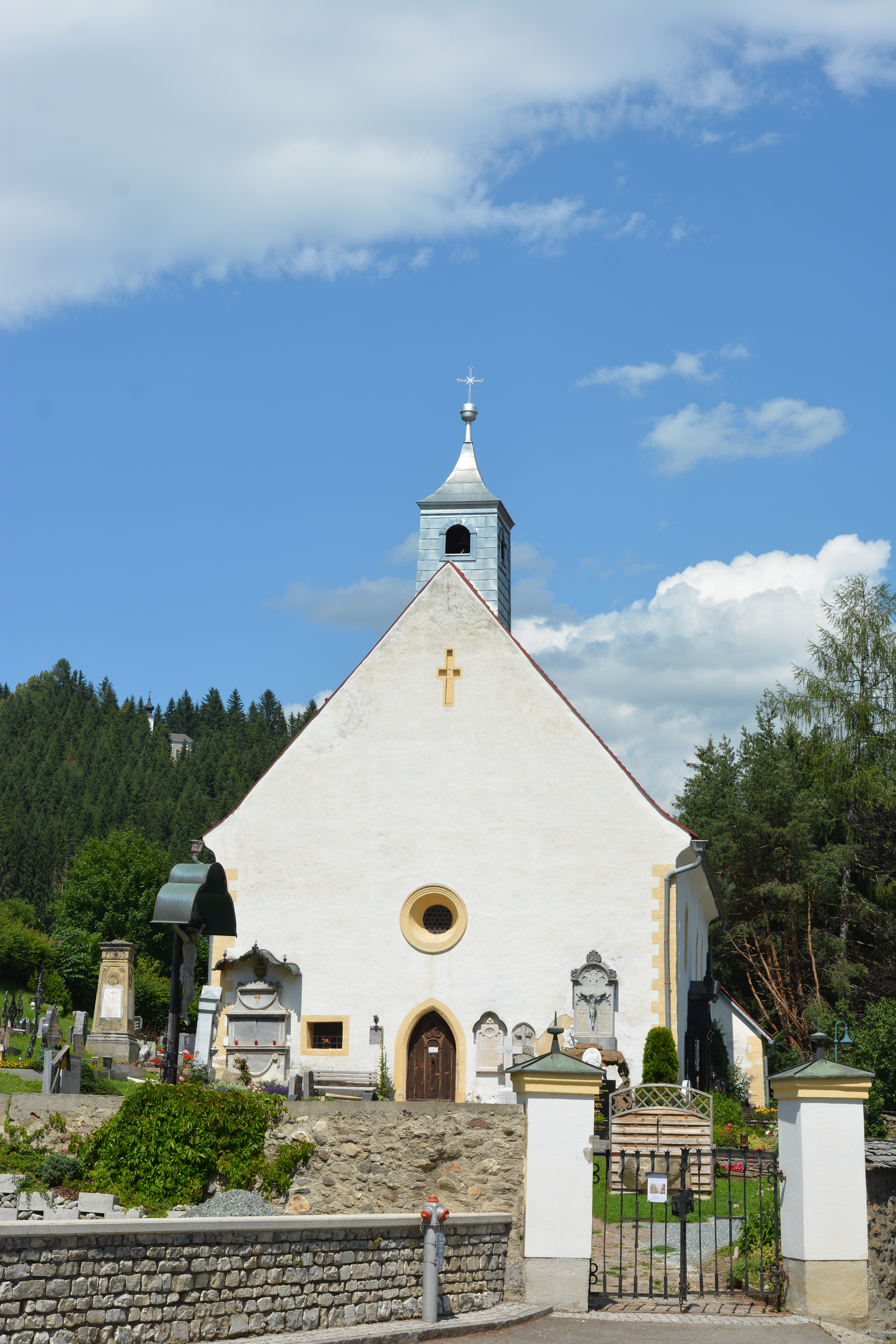 Church St. Elisabeth in Oberzeiring, Steiermark, Austria